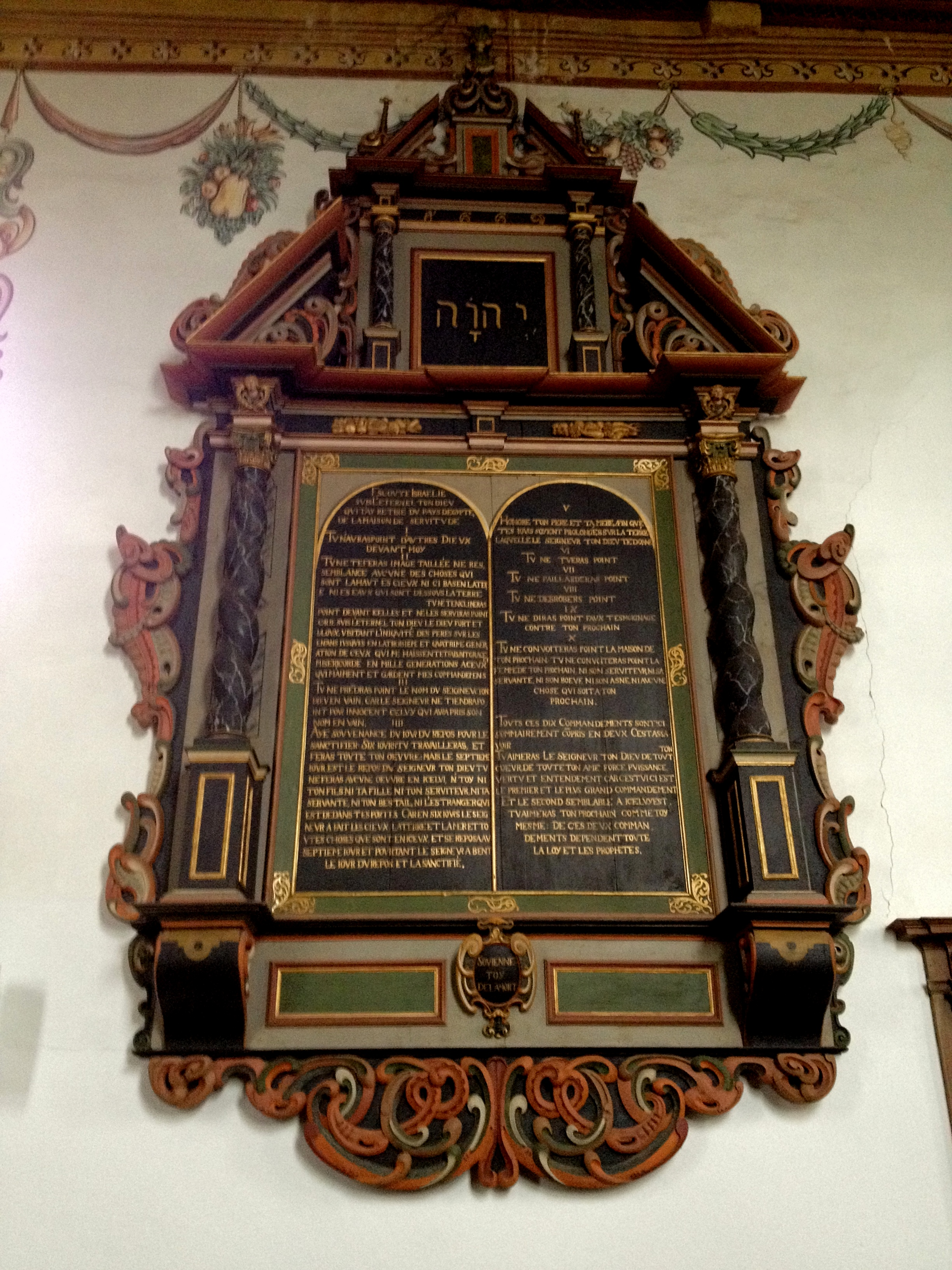 The Decalogue (1669, from ABRAHAM GABEREL). Reformed church of the village Ligerz / Gléresse, Switzerland